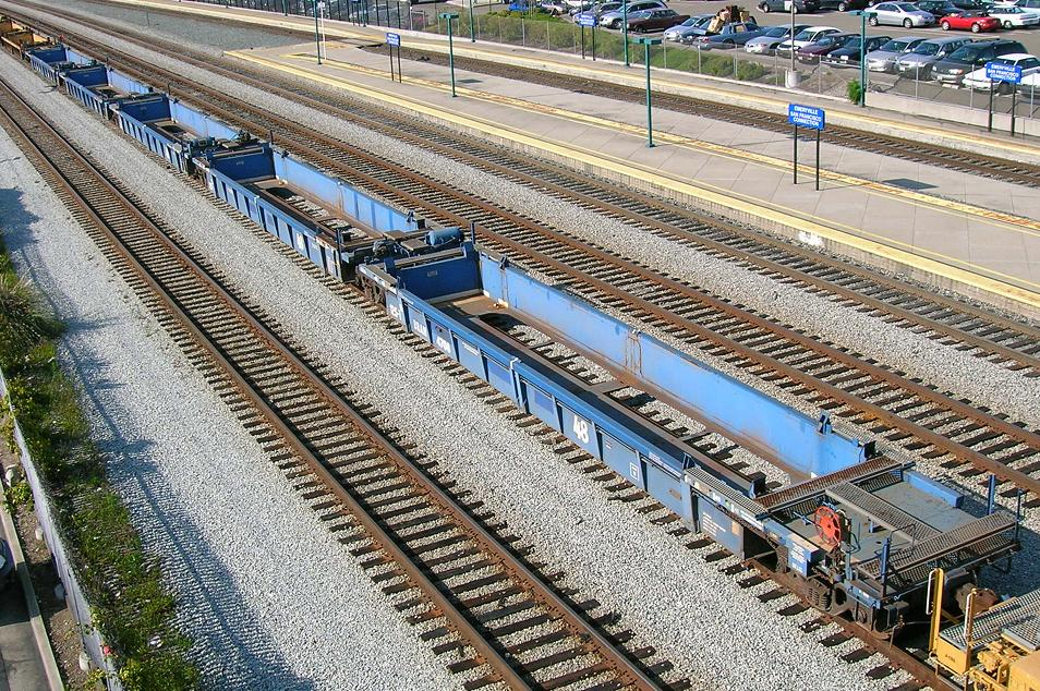 A multiple unit articulated double stack car. This one has five 48' wells. It was made by the Thrall Car Company and is owned by Brandon Rail/Pacer Stacktrain. The location is Emeryville, CA.